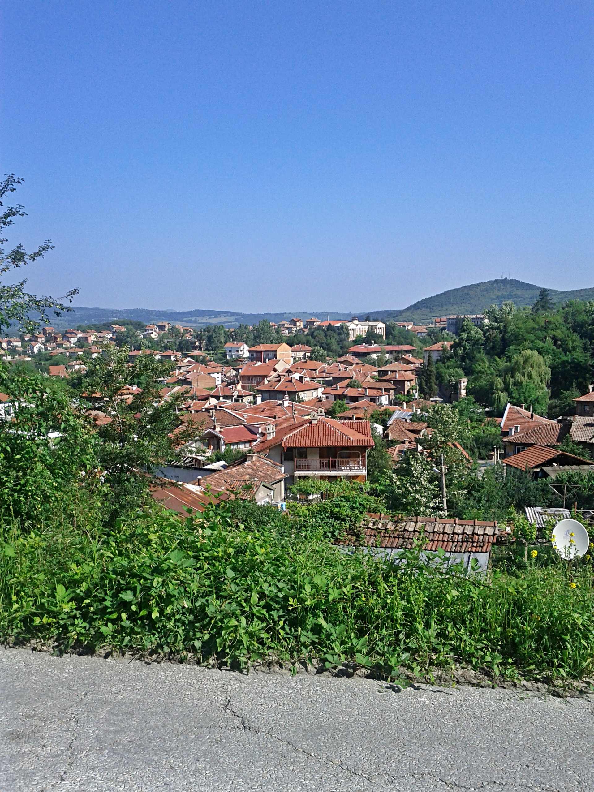 Bratsigovo View